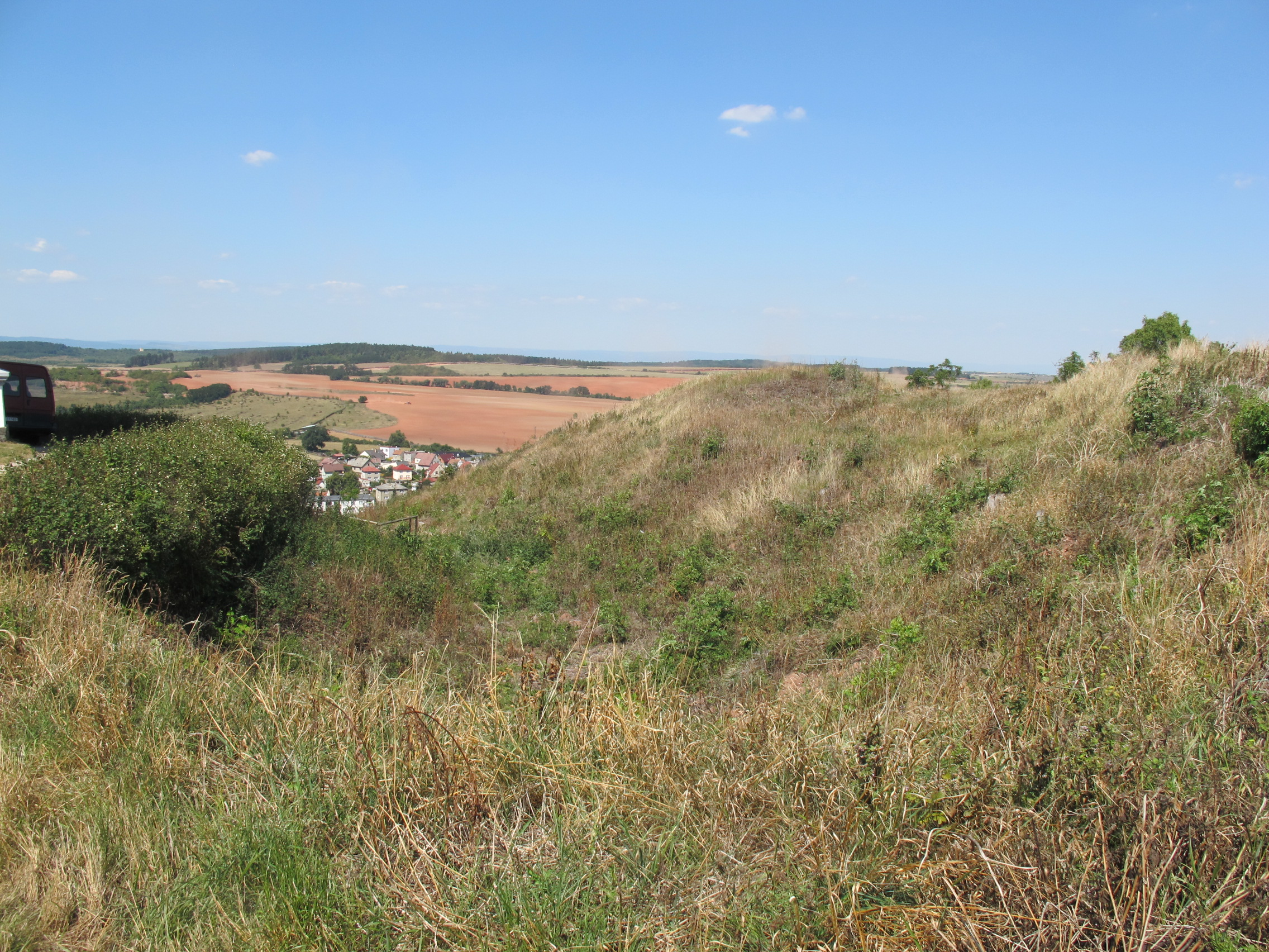 Moat oft Kryry Castle (Czech Republic)